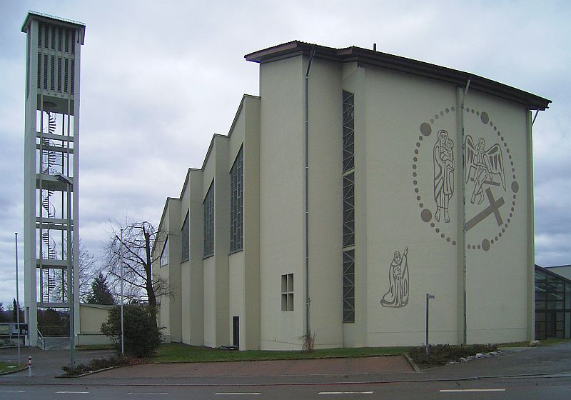 St. Maria Suso in Ulm